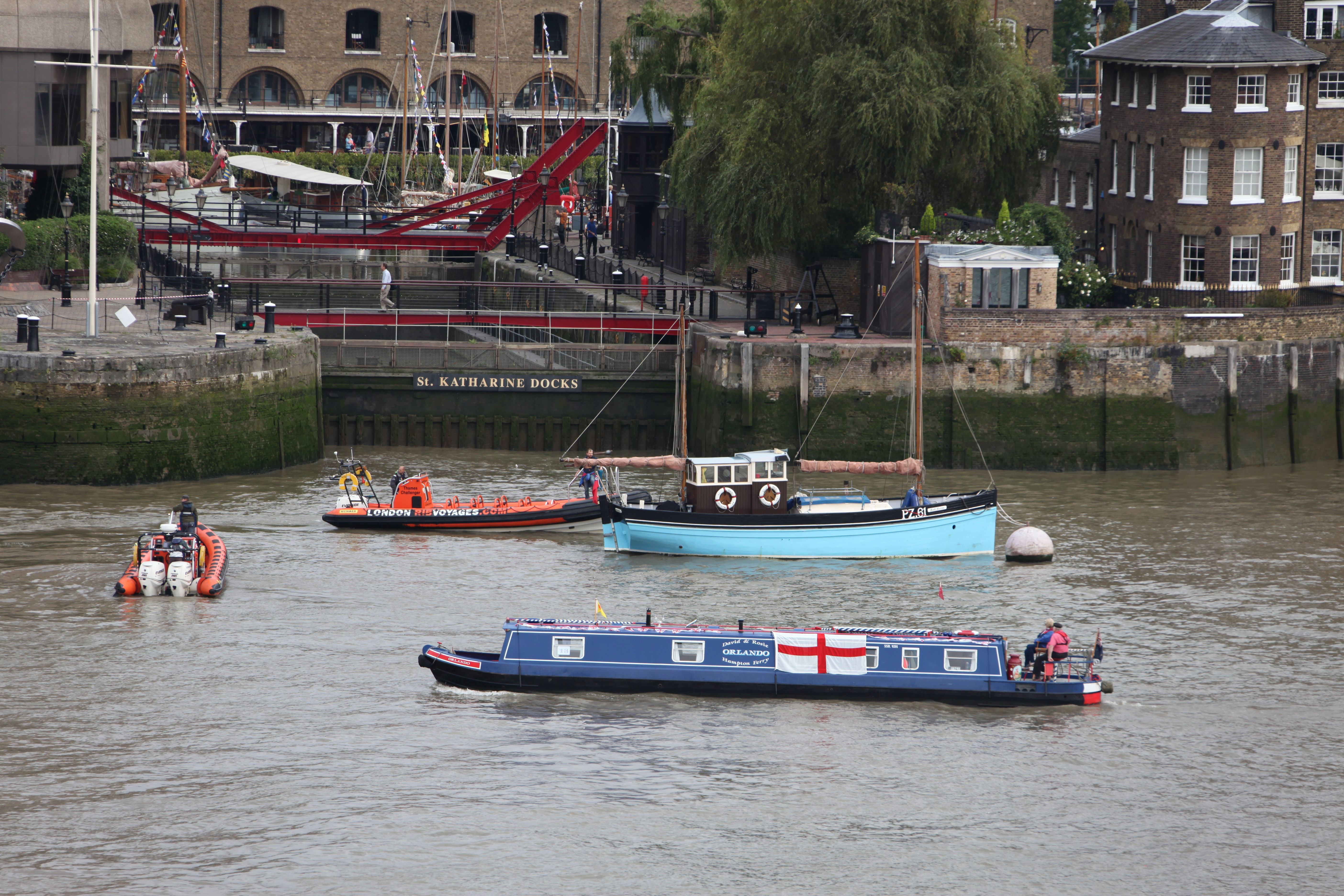 a picture of St Katharine Docks as seen from the Thames with boats waiting to enter